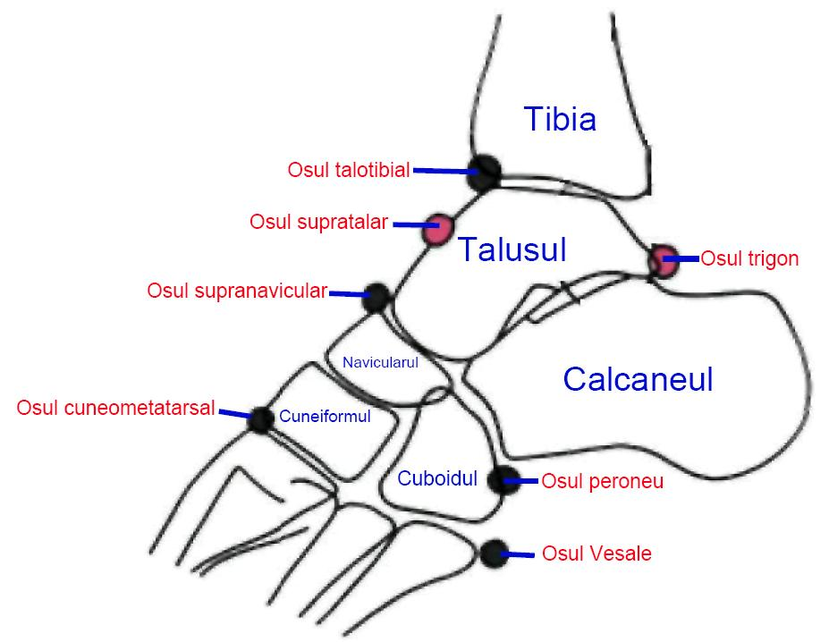 Accessory Bones of the Foot